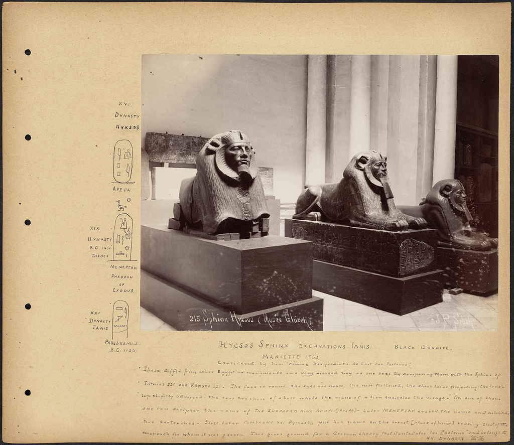 Statues of Amenemhat III Old text: BPLDC no.: 08_04_000037 Page Title: Hycsos Sphinx Collection: Tupper Scrapbooks Collection Album: Volume 26: Lower Egypt. Pyramids. Call no. 4098B.104 v26 (p. 36) Creator: Tupper, William Vaughn Description: Scrapbook page containing a photograph of Egyptian sphinx statues, annotated with information about the statues. The page also includes three drawings of cartouches and information about the Hyksos dynasty. Subjects: Egyptian (ancient) statue Sphinxes Page size: 33 x 38.1 cm Annotations: Mariette 1863. Considered by him"comme des produits de l'art des pasteurs." "These differ from other Egyptian monuments in a very marked way as one sees by comparing them with the Sphinx of Tutmes III and Ramses II. The face is round, the eyes are small, the nose flattened, the cheek bones projecting, the lower lip sliphtly advanced, the ears are those of a bull wehile the mane of a lion encircles the visage."On one of them one can descipher the name of the Shepherd Kind Apopi [Apepa]. Later Meneptah erased the name and substituted his cartouches. Still later Pasebxanu XXI dynasty put his name on the breast [place of honor] erasing that of the monarch for whom it was graven. This gives ground for a German theory that it antedates"les Pasteurs"and belongs to XII. Dynasty. XVI. Dynasty Hyksos. Apepa. XIX Dynasty B.C. 1400 Thebes Meneptah Pharoah of Exodus. XXI. Dynasty Tanis Pasebxanu I. B.C. 1100. Language: English and French, photograph titled in French Rights: No known restrictions. Coverage: Egypt Notes: Title supplied by cataloger, derived from captions or annotated information. Format: Scrapbooks Technique: Photographs, Albumen prints BPL Department: Print Department Photo 1: Photographer: Sébah, J. Pascal Title: 215 Sphinx Hycsos (Musée Ghizeh) Caption: Hycsos Sphinx Excavation Tanis. Black Granite. Date: ca. 1888-1890 Flickr data on 2011-08-03: Camera: Sinar AG Sinarback 54 FW, Sinar m License: CC BY 2.0 User: Boston Public Library BPL